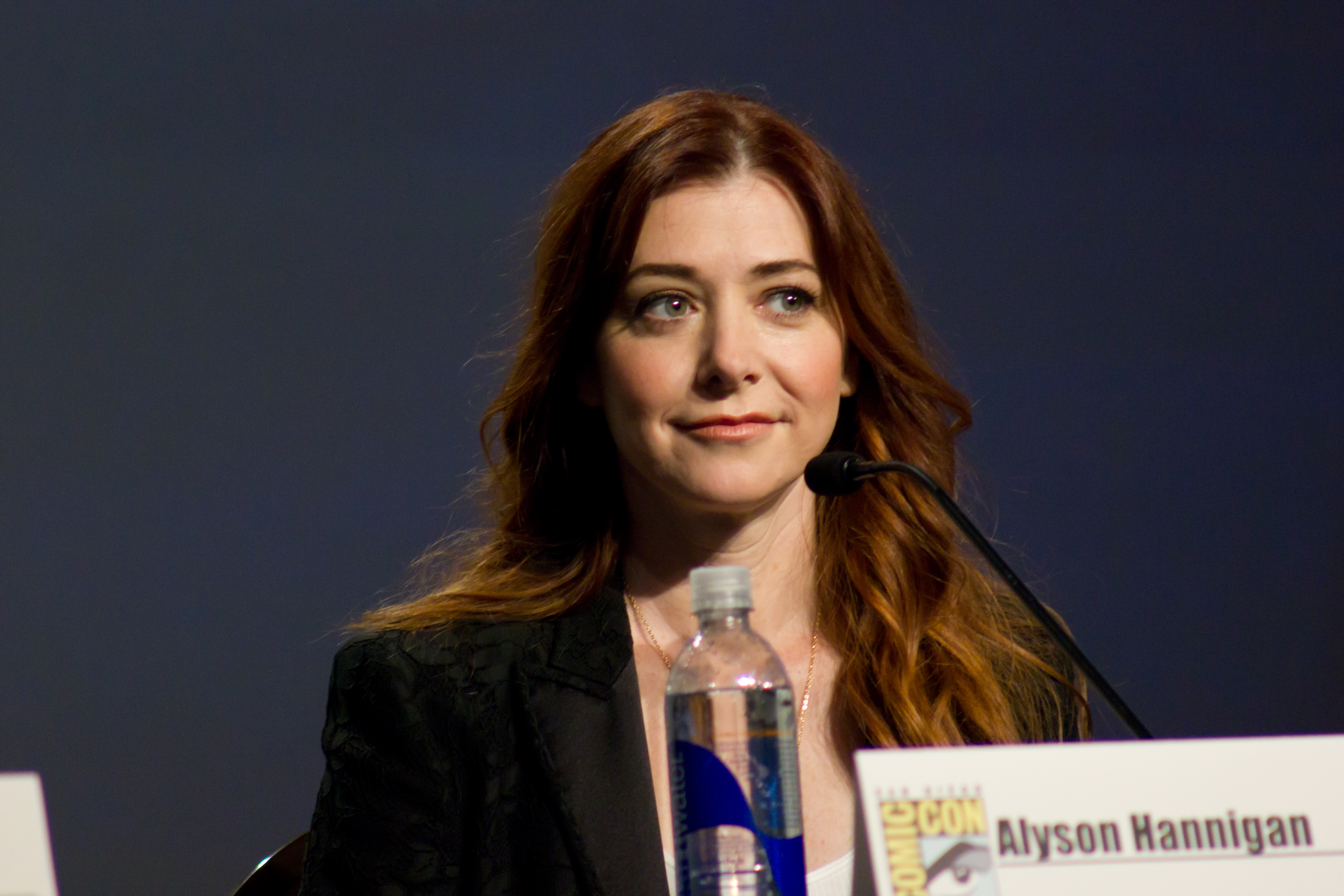 Alyson Hannigan at the 2013 San Diego Comic-Con International in San Diego, California.